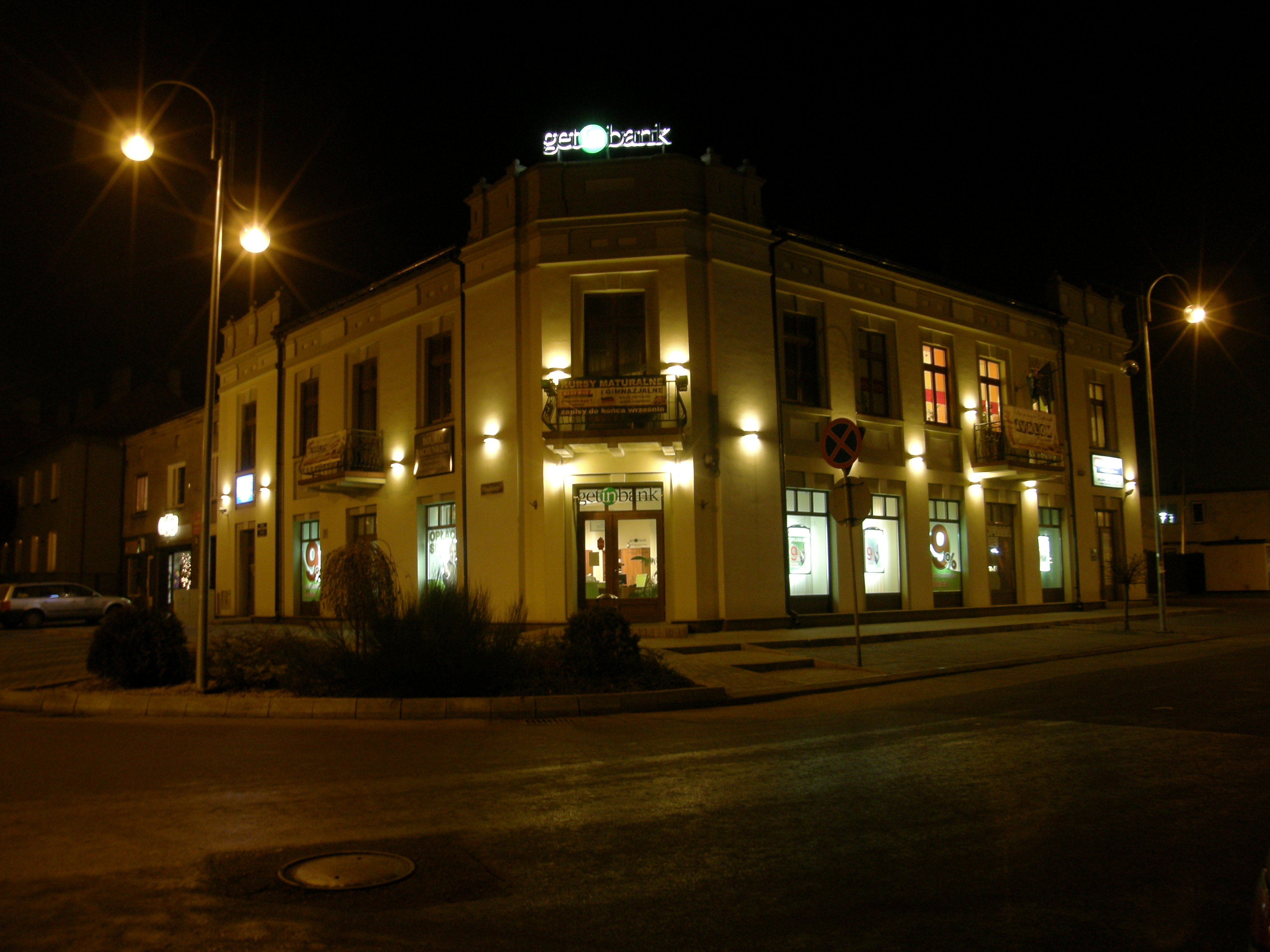 Kamienica in Radomsko